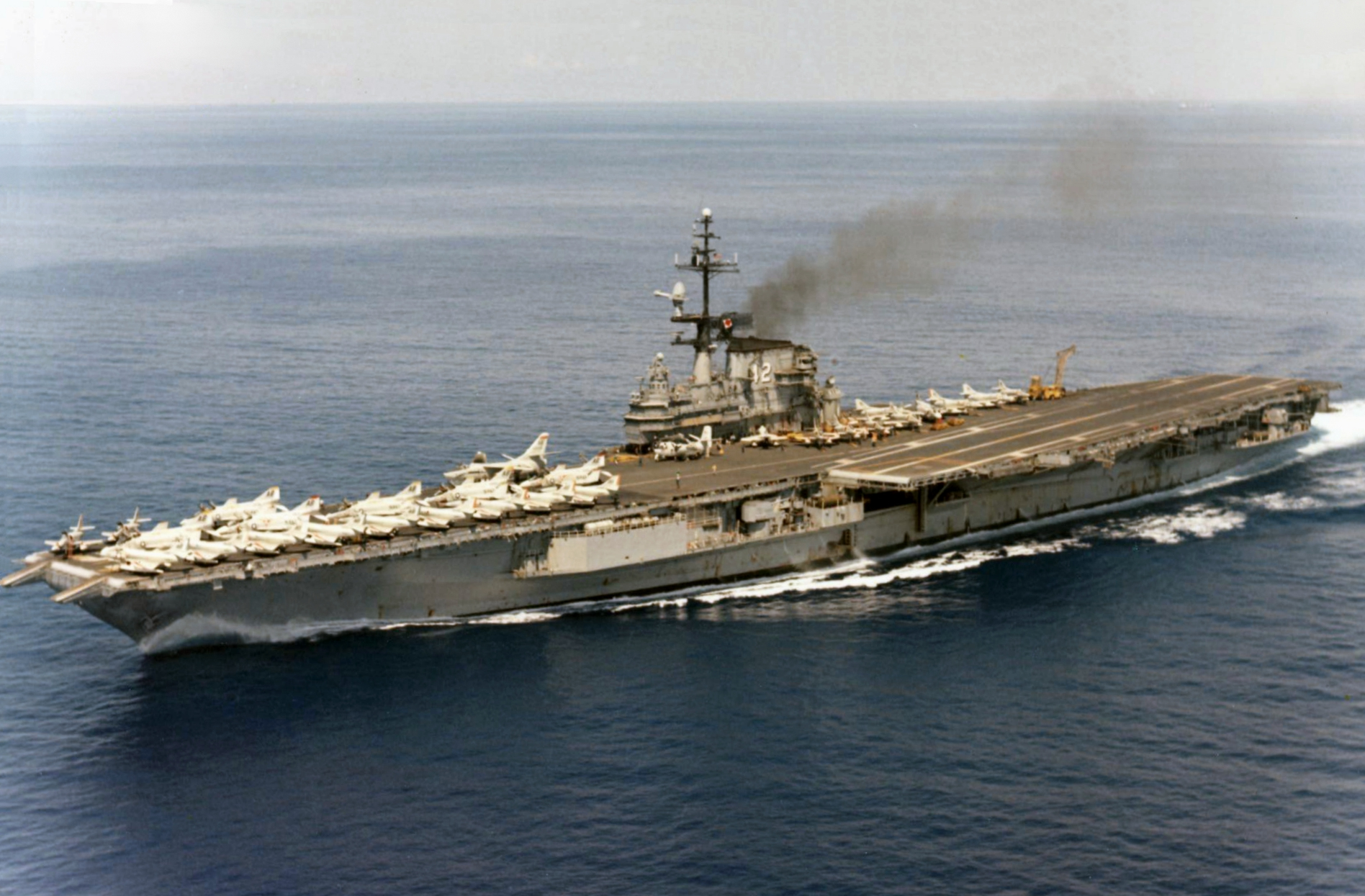 The U.S. Navy aircraft carrier USS Franklin D. Roosevelt (CVA-42) underway in the Mediterranean Sea. Franklin D. Roosevelt, with assigned Attack Carrier Air Wing 1 (CVW-1), was deployed to the Mediterranean Sea from 24 August 1967 to 19 May 1968.